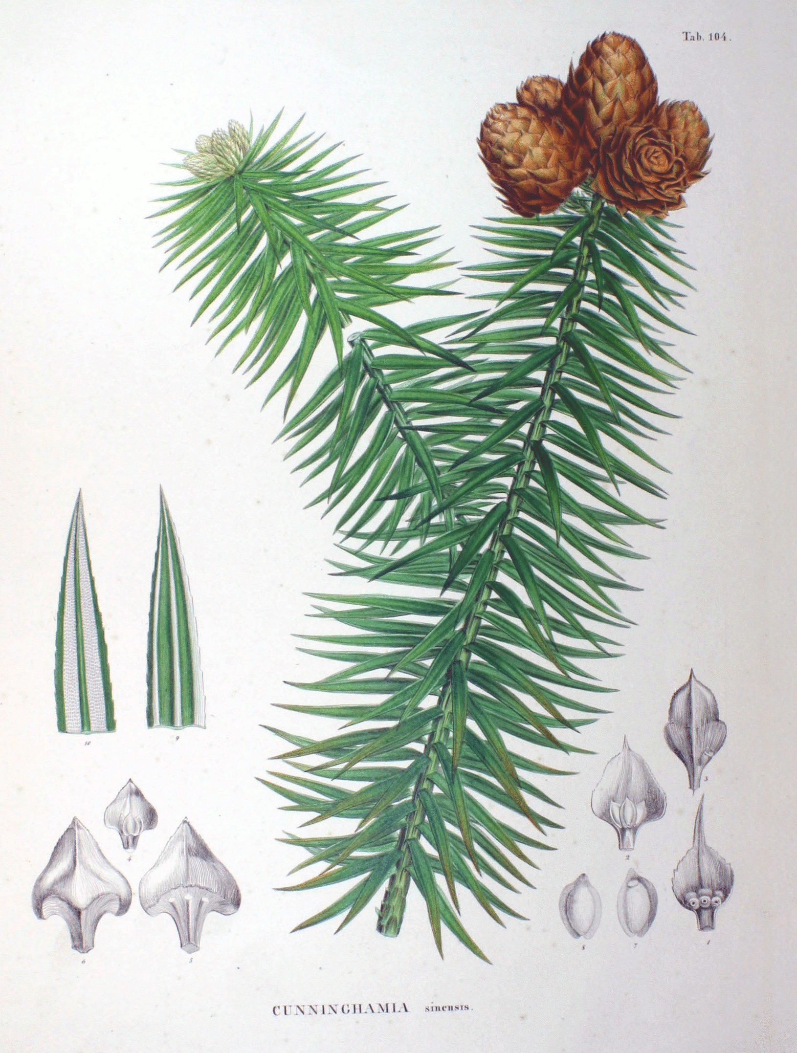 Cunninghamia lanceolata Plate from book